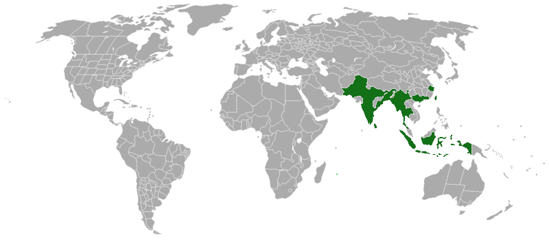 Acacia catechu range map created with a blank map from the Commons, info from ILDIS LegumeWeb and the GIMP graphics software.